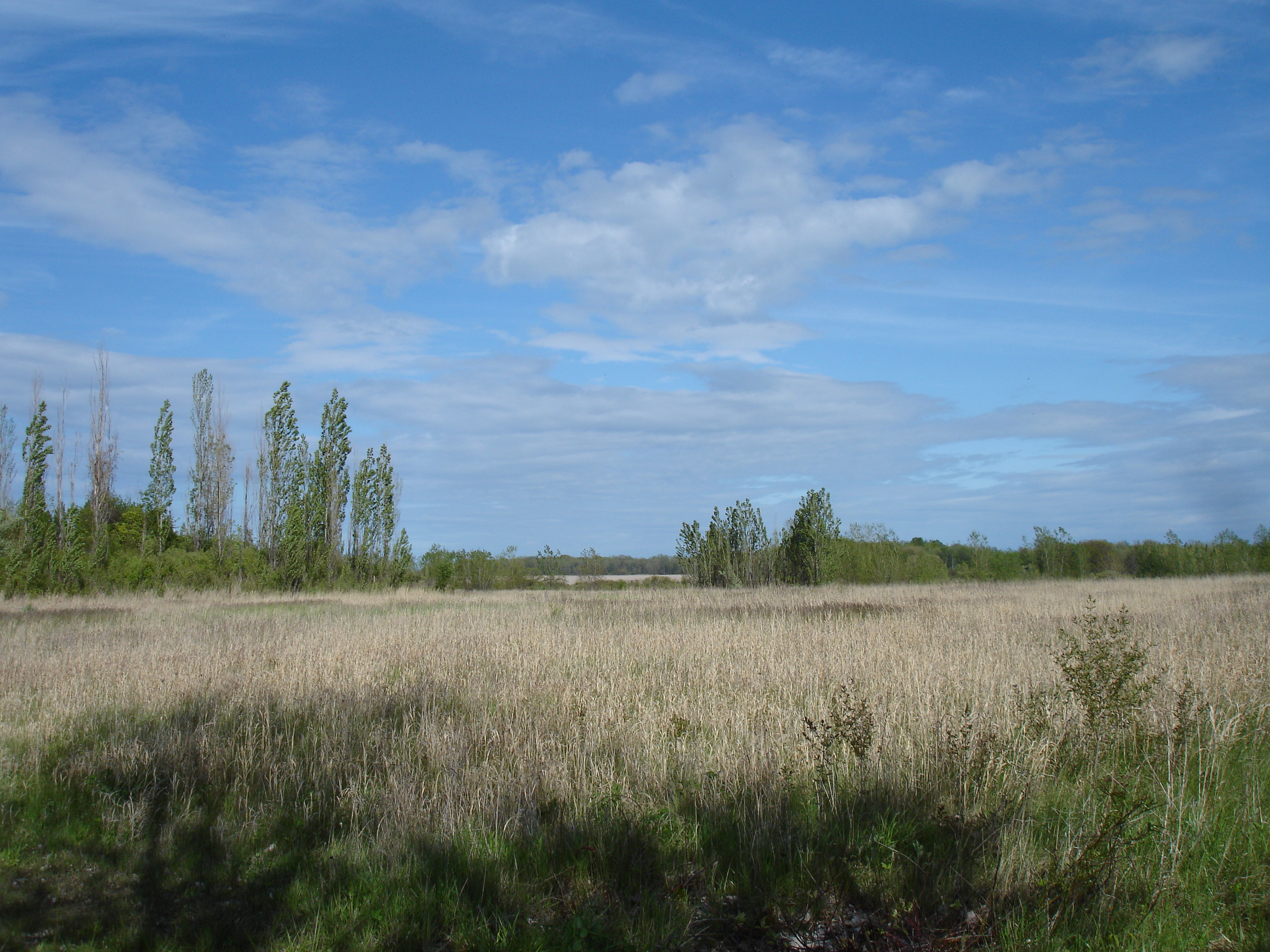 Beatty Point's many portions of grassy fields lure bird enthusiasts eager to spot unique ground nesting species. Larisa B-B, I took this picture